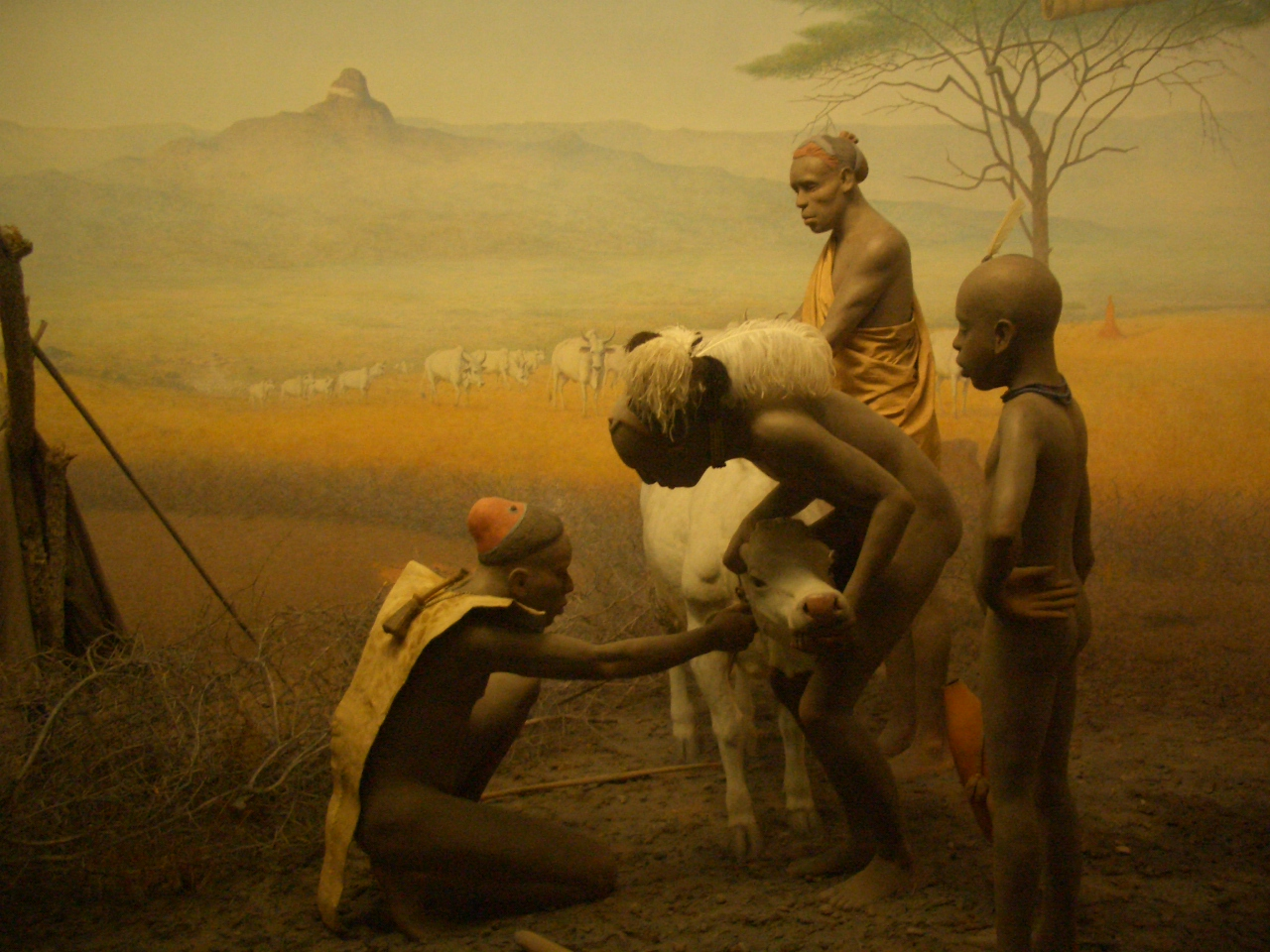 Hall of African Peoples. New York AMNH.